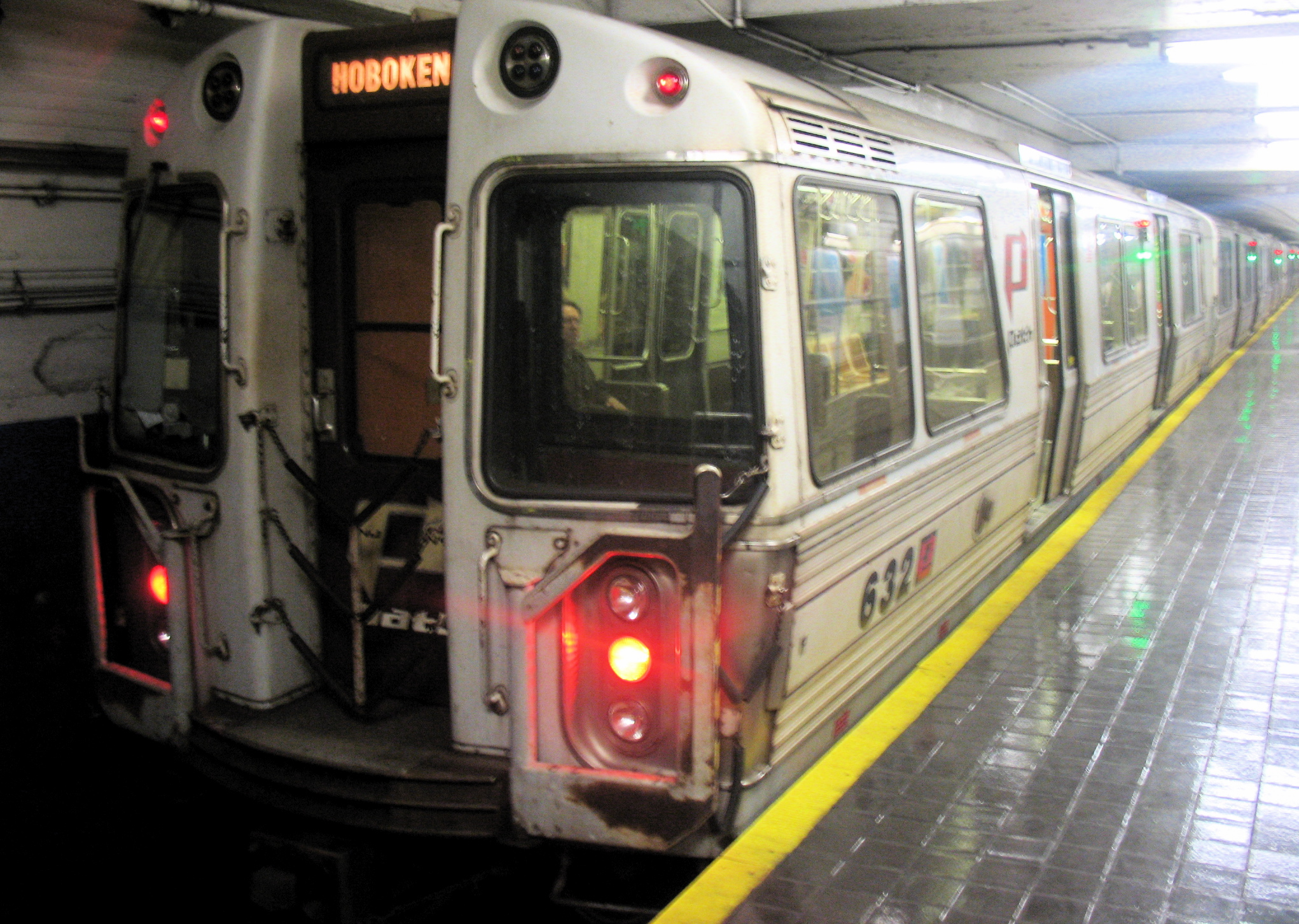 A PATH subway train car leaving 14th Street station, heading towards 33rd Street.